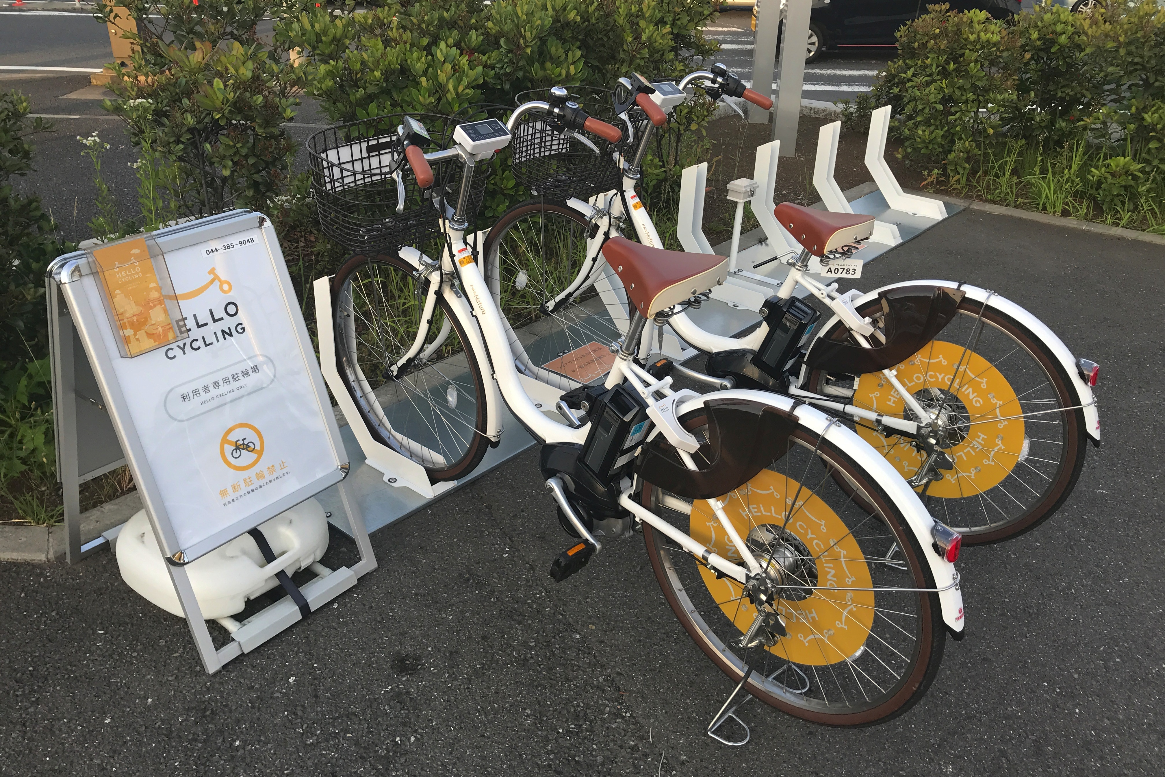 Bicycle parking space for "Hello cycling" in Japan.